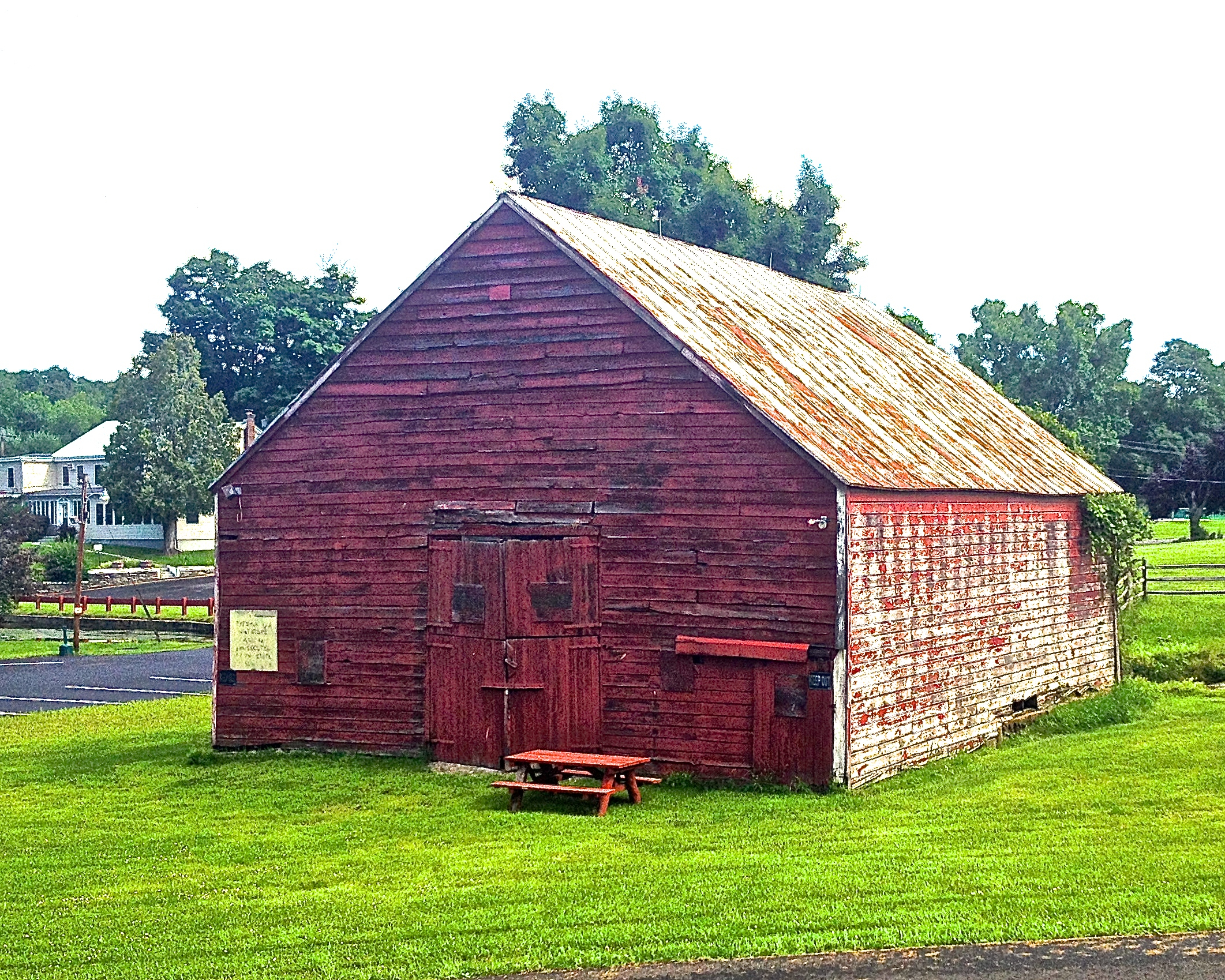 Parker Training Academy Dutch Barn, 527 Turkey Hill Rd. Red Hook